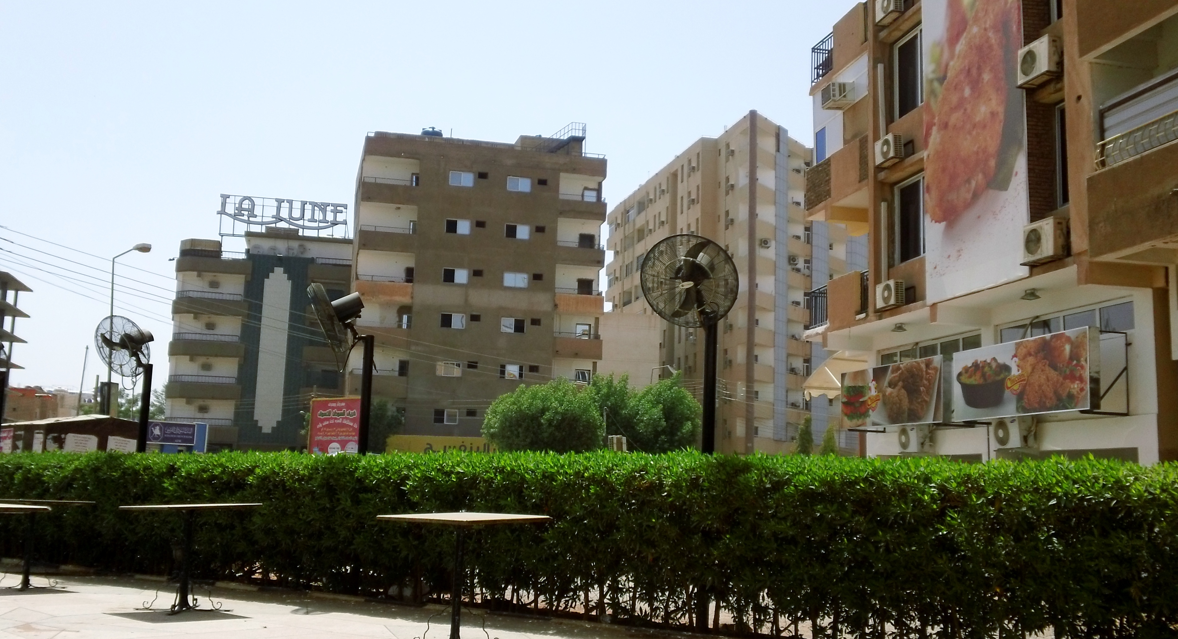 Alamart 41 th Street - Khartoum - Sudan